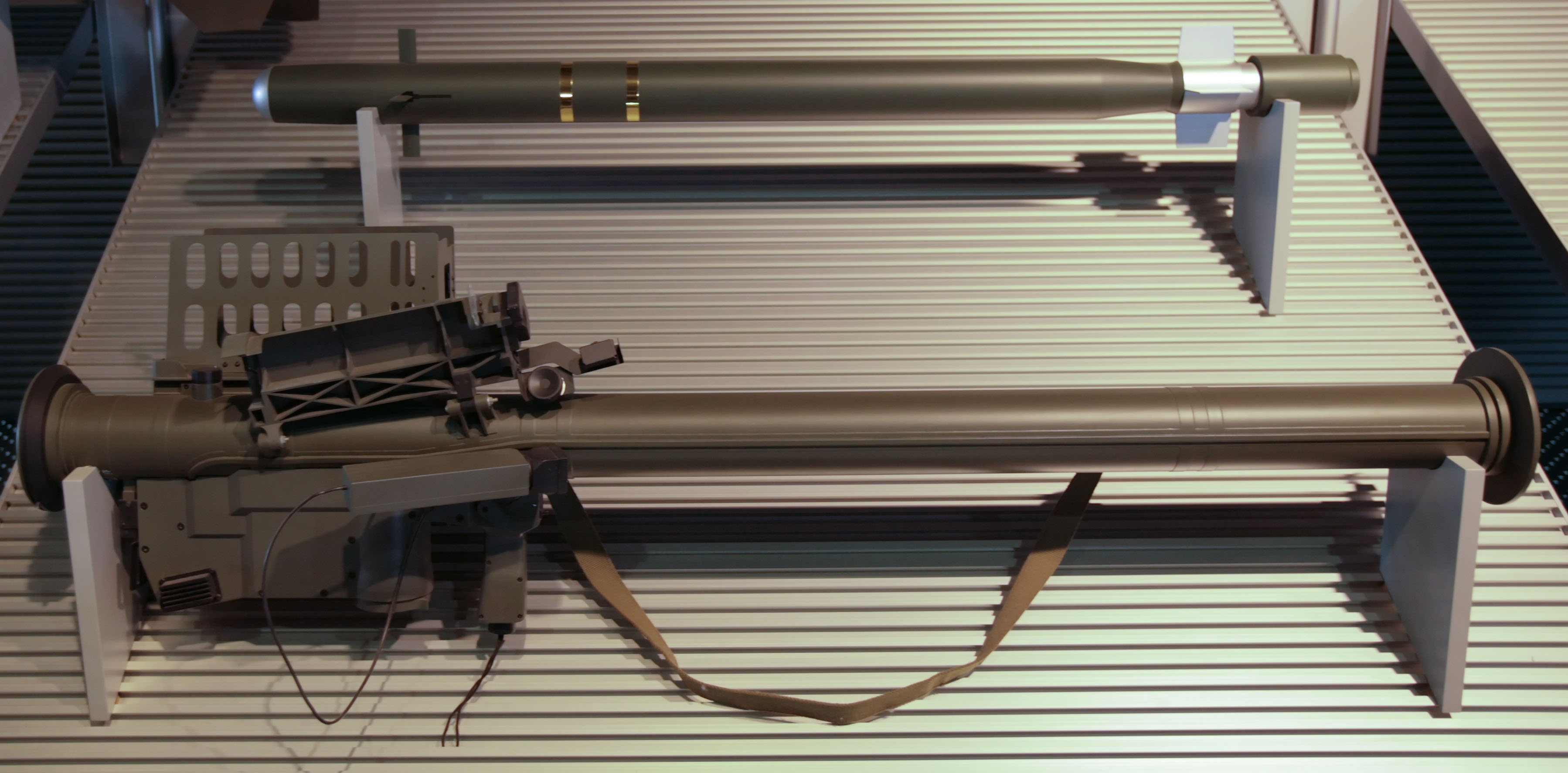 A mockup of a Japanese Type 91 surface to missile launcher and missile.